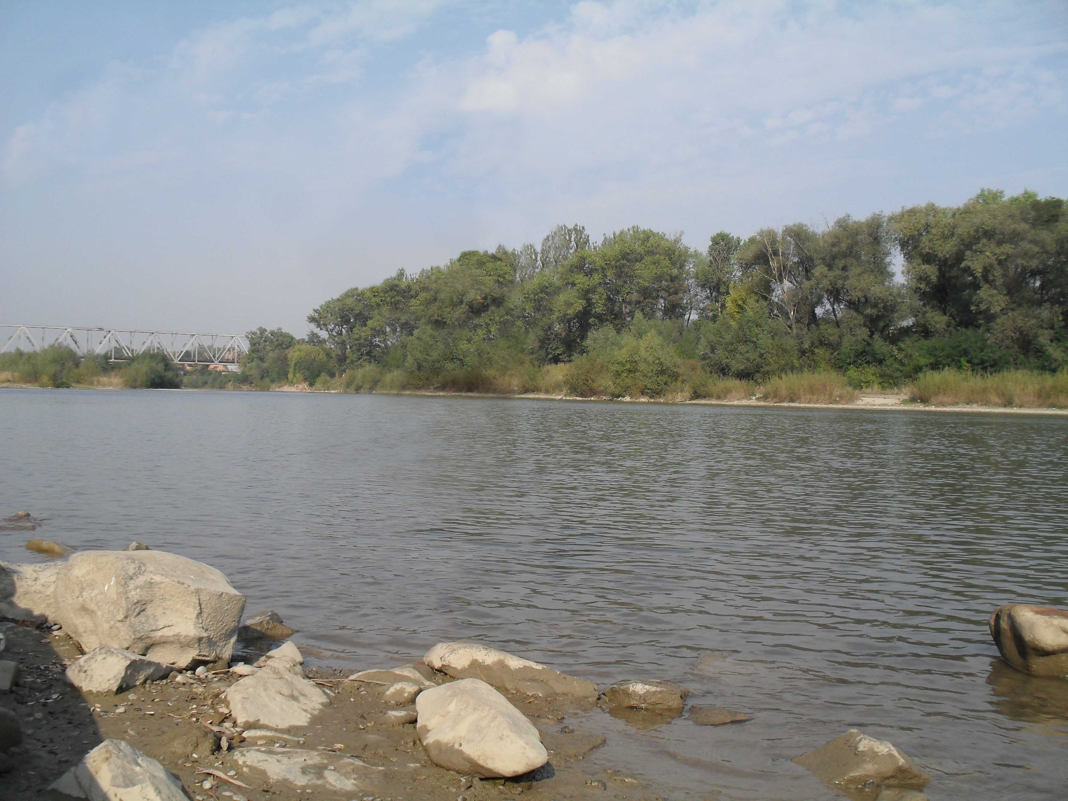 Prut River around Ungheni (view of the moldovan bank from the romanian one).